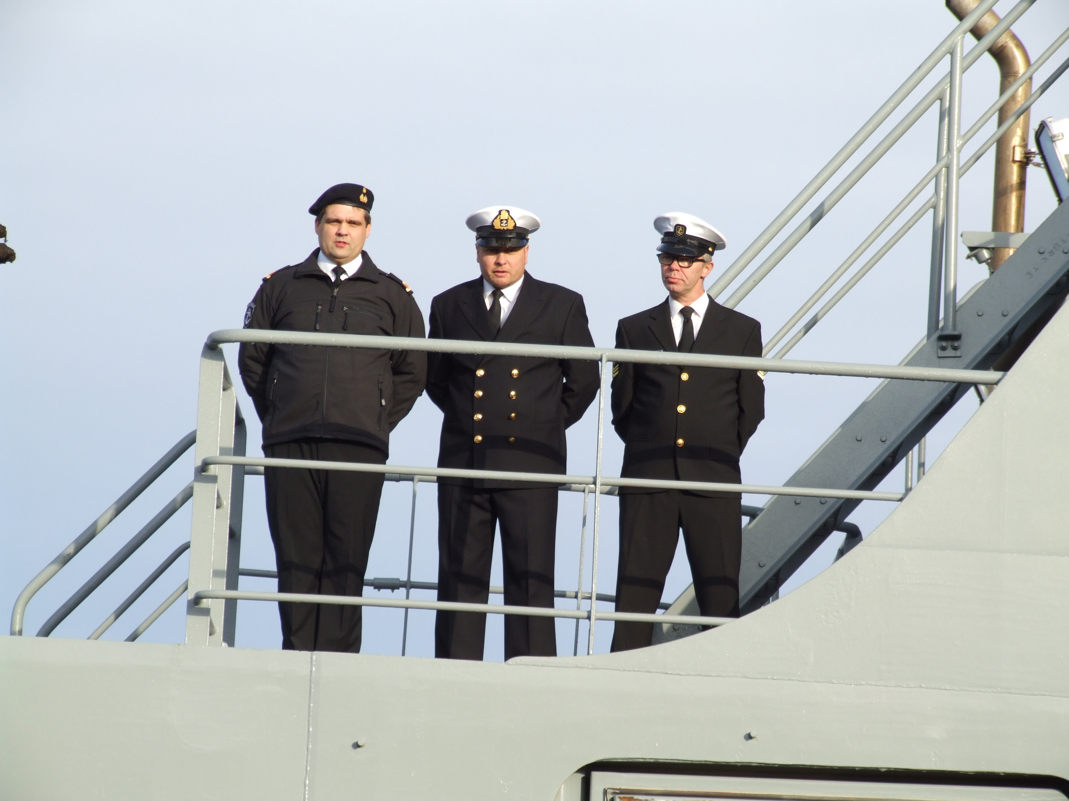 Arrival of Thor - Icelandic Coast Guard 2011-10-27 Reykjavik; from rigt: director of Icelandic Coast Gard Georg Lárusson